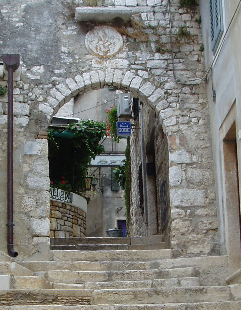 Rovinj, old town